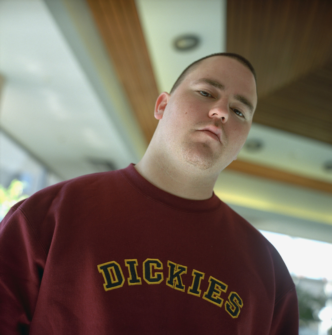 in Cologne 2002